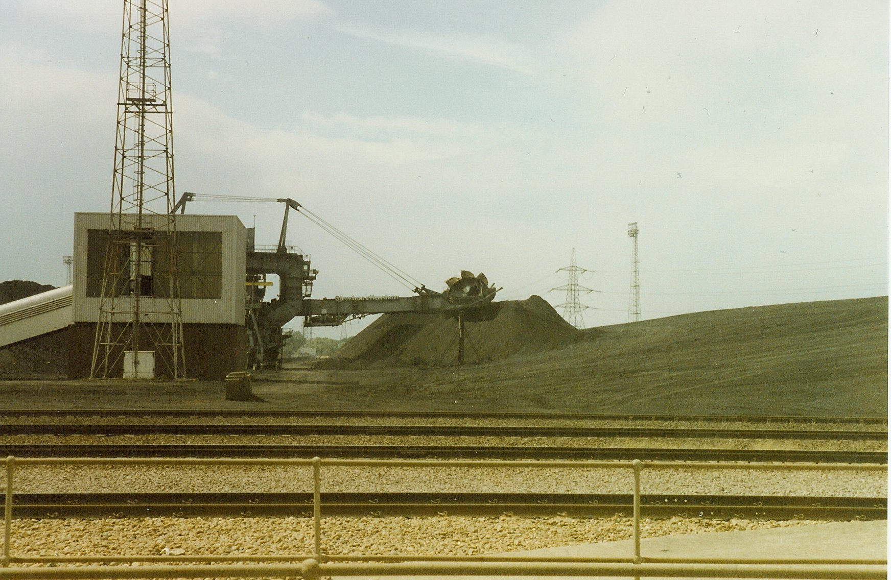 Drax Power station Coal rotating loader